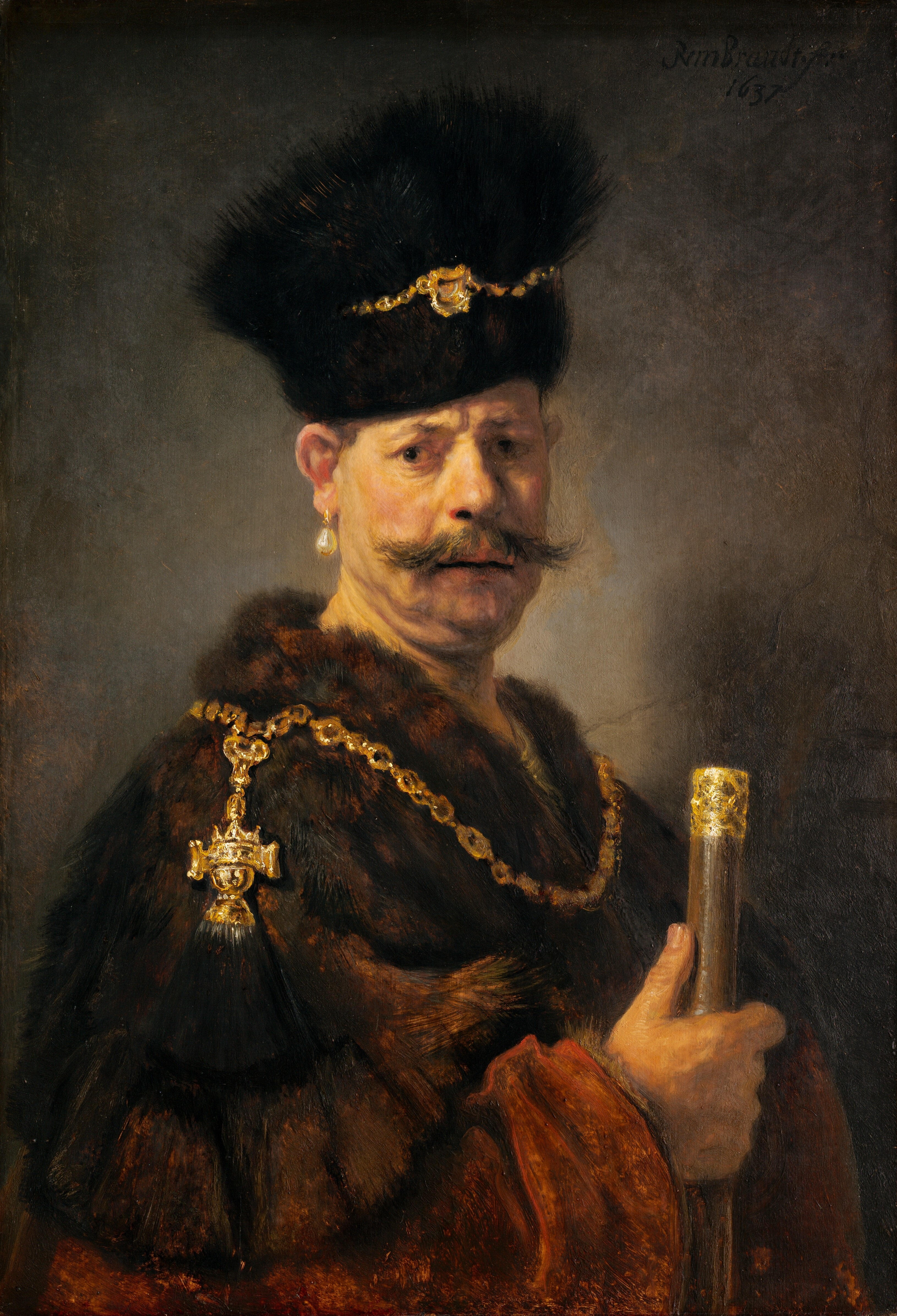 Half figure of a man in oriental costume. Jan Nowak-Jezioranski identifies him as Andrzej Rej, a grandson of Mikołaj Rej, a leading Polish poet and prose writer of the Renaissance. Andrzej Rej (ca. 1584-1641) was a governor of Libusza, Calvinist activist, and a diplomat who was sent on a diplomatic mission in 1637 to the Danish, Dutch and English courts. Other sources identify the sitter as John III Sobieski, King of Poland.